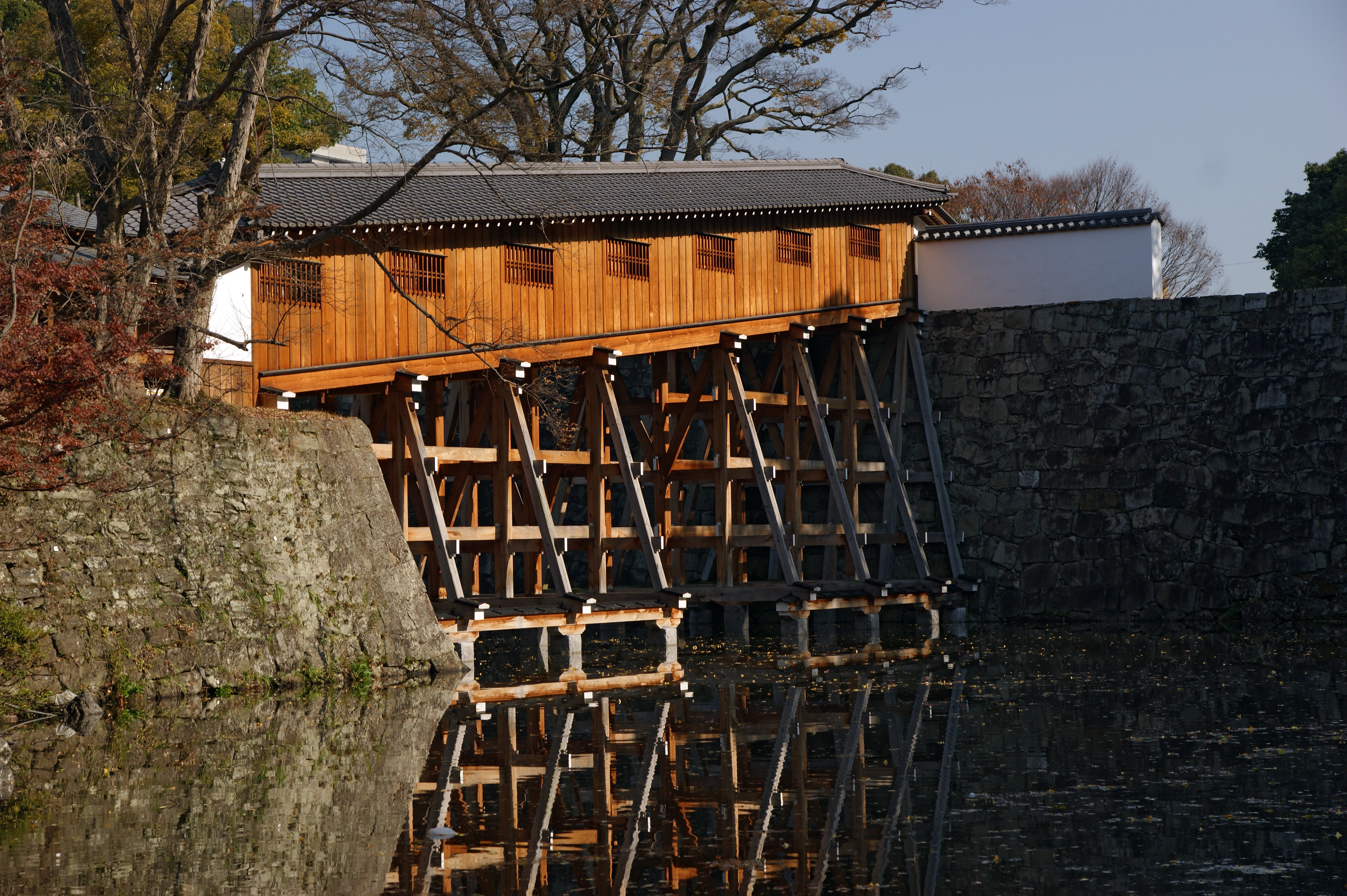 Wakayama Castle Nishinomaru Garden, Wakayama, Wakayama prefecture, Japan